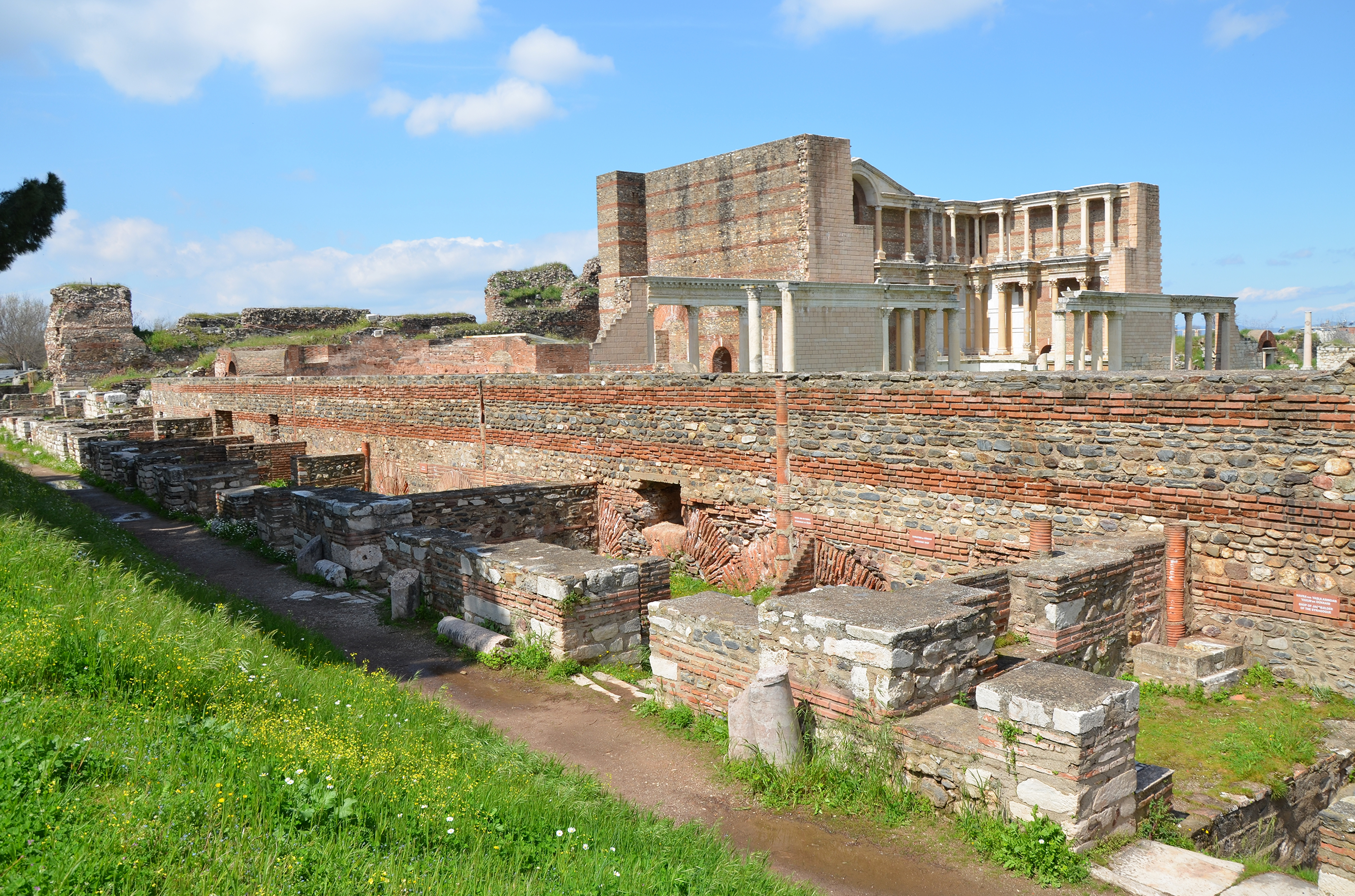 View of the Byzantine Shops and the Bath-Gymnasium Complex, Sardis (Lydia), Turkey